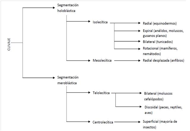 Mapa tipos de clivaje